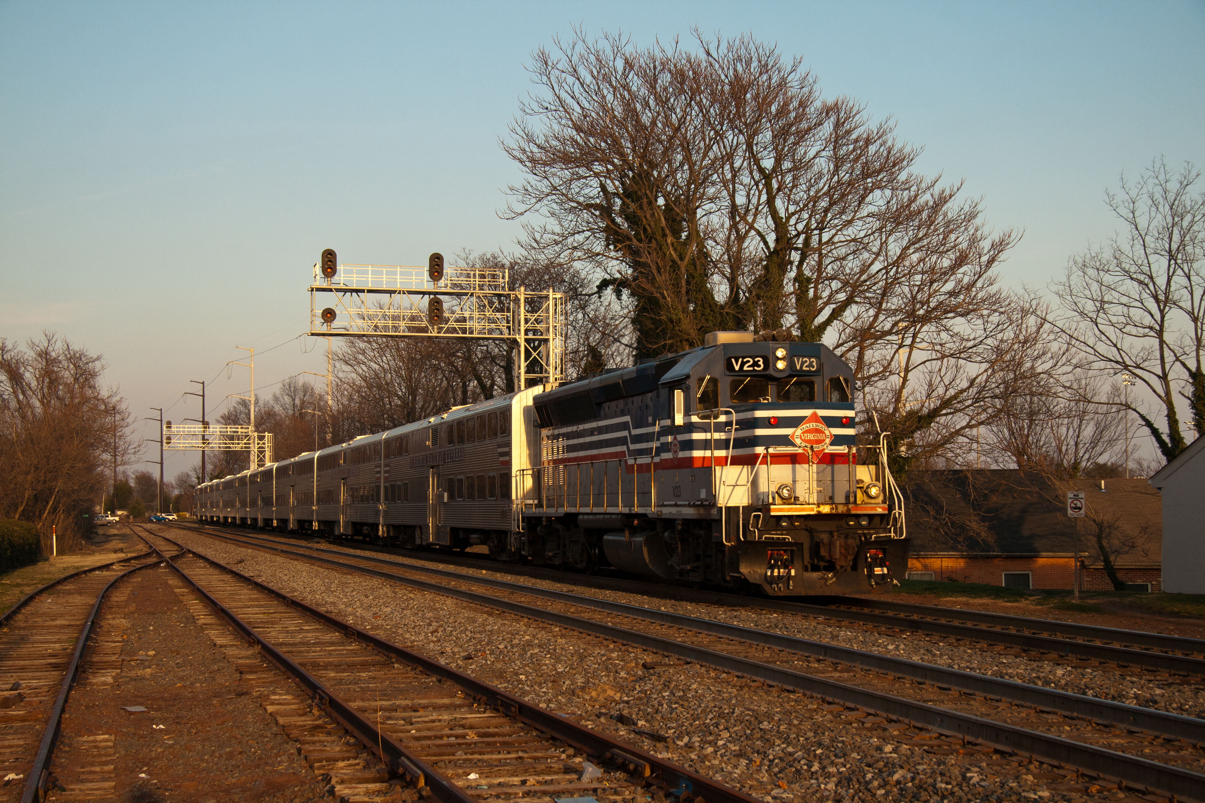 An evening VRE commuter train is approaching the Manassas, VA station. Led by a GP40, the train left Union Station in Washington, DC about a hour before.